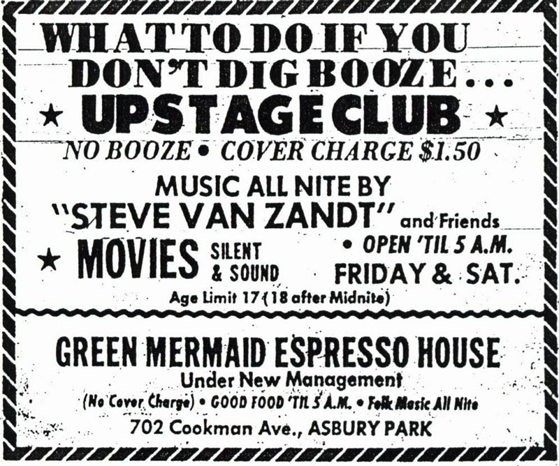 This is a flyer for The Upstage Club.